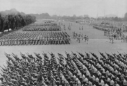 US Military parade at the Imperial Palace Plaza